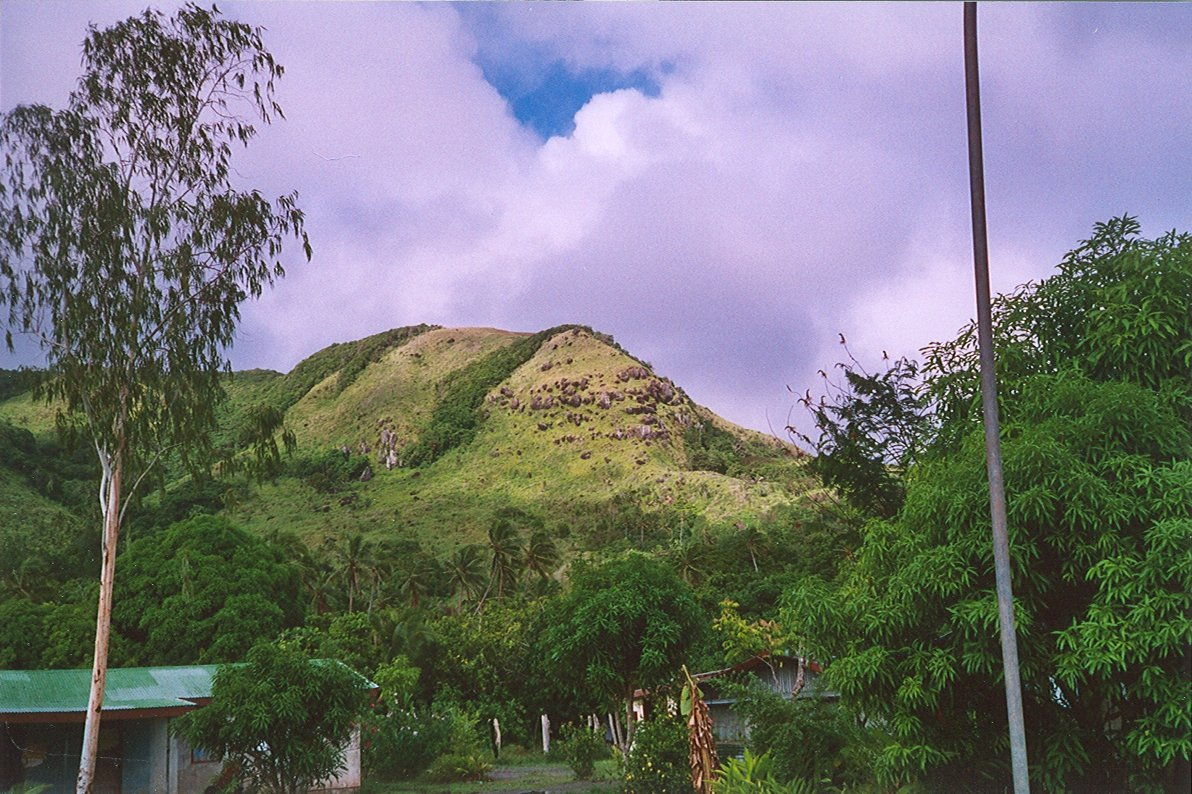 Vunisea, Kadavu Island, Fiji Islands, Pacific Ocean. Additional note from the author: Corrugated iron or concrete buildings as seen here occur in many Fijian villages, being preferred over more traditional construction largely due to their resistance to cyclones. Mountains near many villages provide water pressure and protection from storms in addition to the dramatic view.